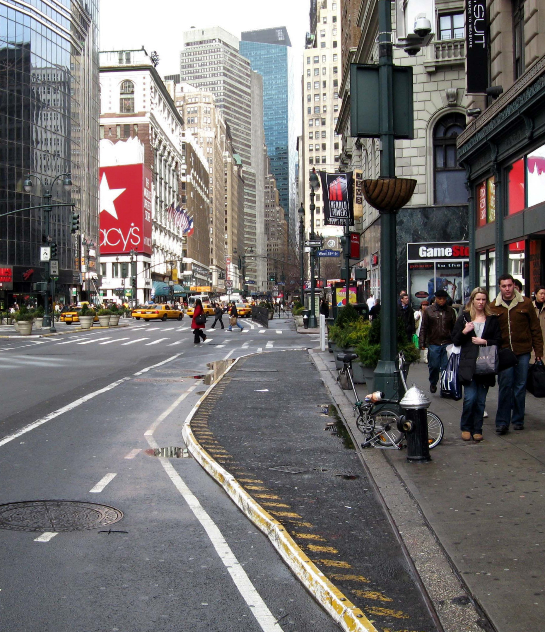 Curb extension of left curb at Broadway and 33rd Street, Manhattan, seen from south on a partly cloudy warm winter day